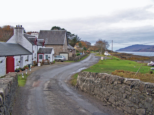 A849 through Pennyghael Looking west from the bridge over the Leidle River. As with most roads on Mull, the A849 is a single track road with passing places marked by black and white poles.